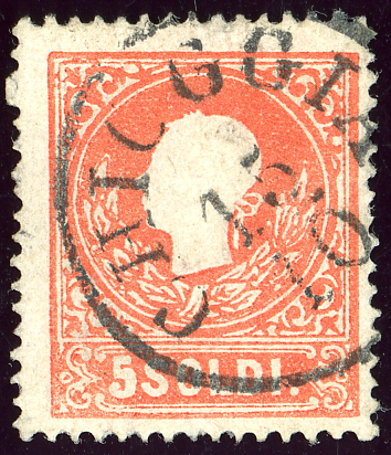 Stamp of Lombardy-Venetia, issue 1859 type II, 5 soldi, cancelled at CHIOGGIA, Veneto. Michel 9II.